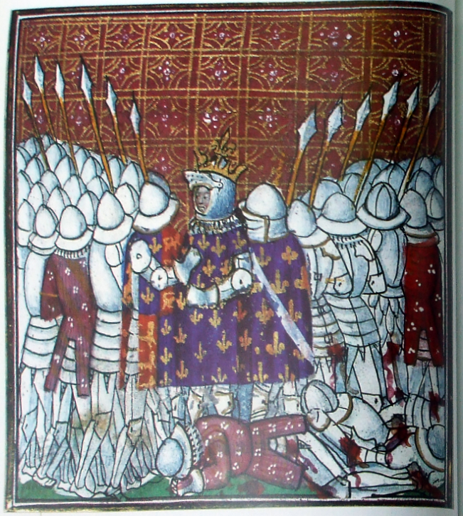 Jean II le bon